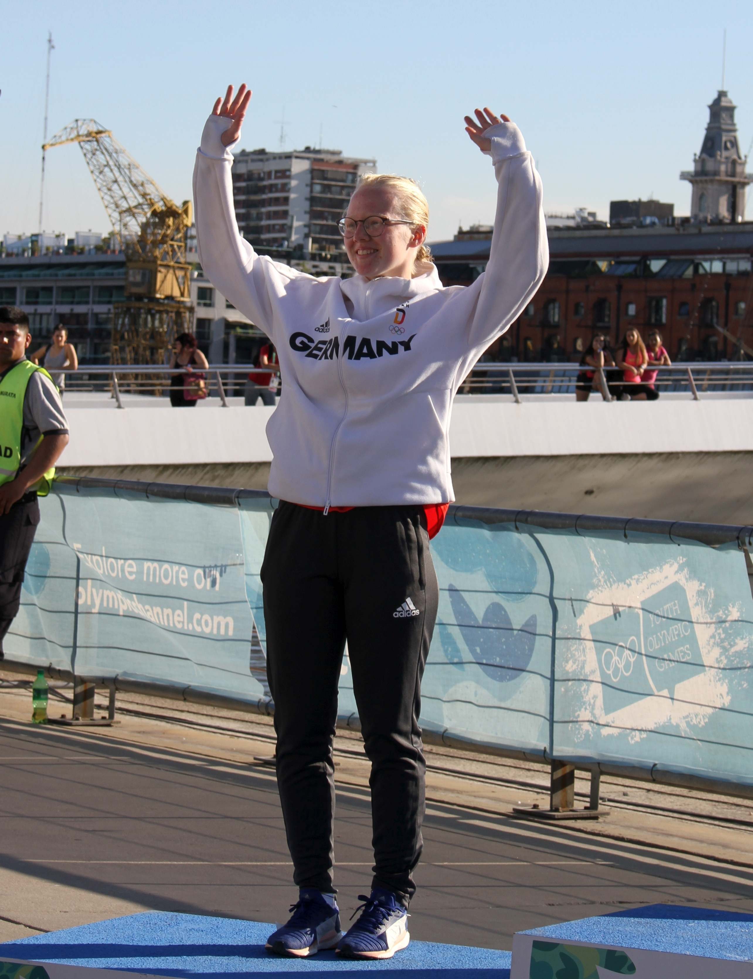 Canoeing at the 2018 Summer Youth Olympics at 16 October 2018 – Girls' C1 slalom Gold Medal Race: Doriane Delassus (France, gold) - Zola Lewandowski (Germany, silver) - Emanuela Luknárová (Slovakia, bronze)